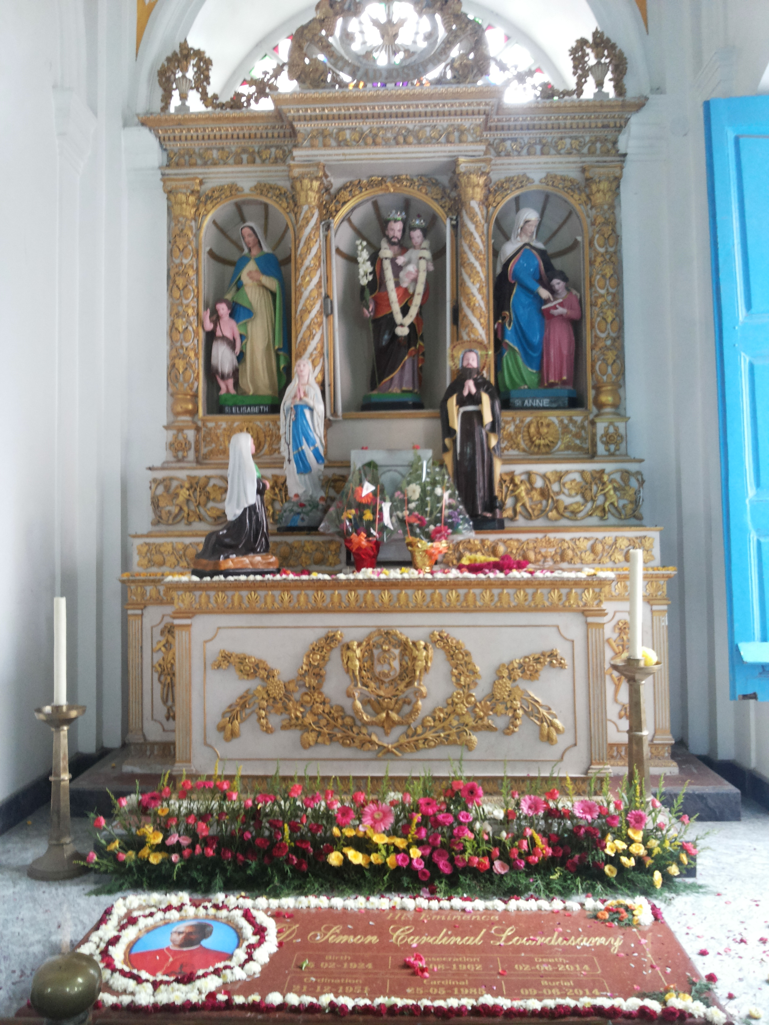 Tomb of Caridnal Lourdusamy at Immaculate Conception Cathedral, Puducherry